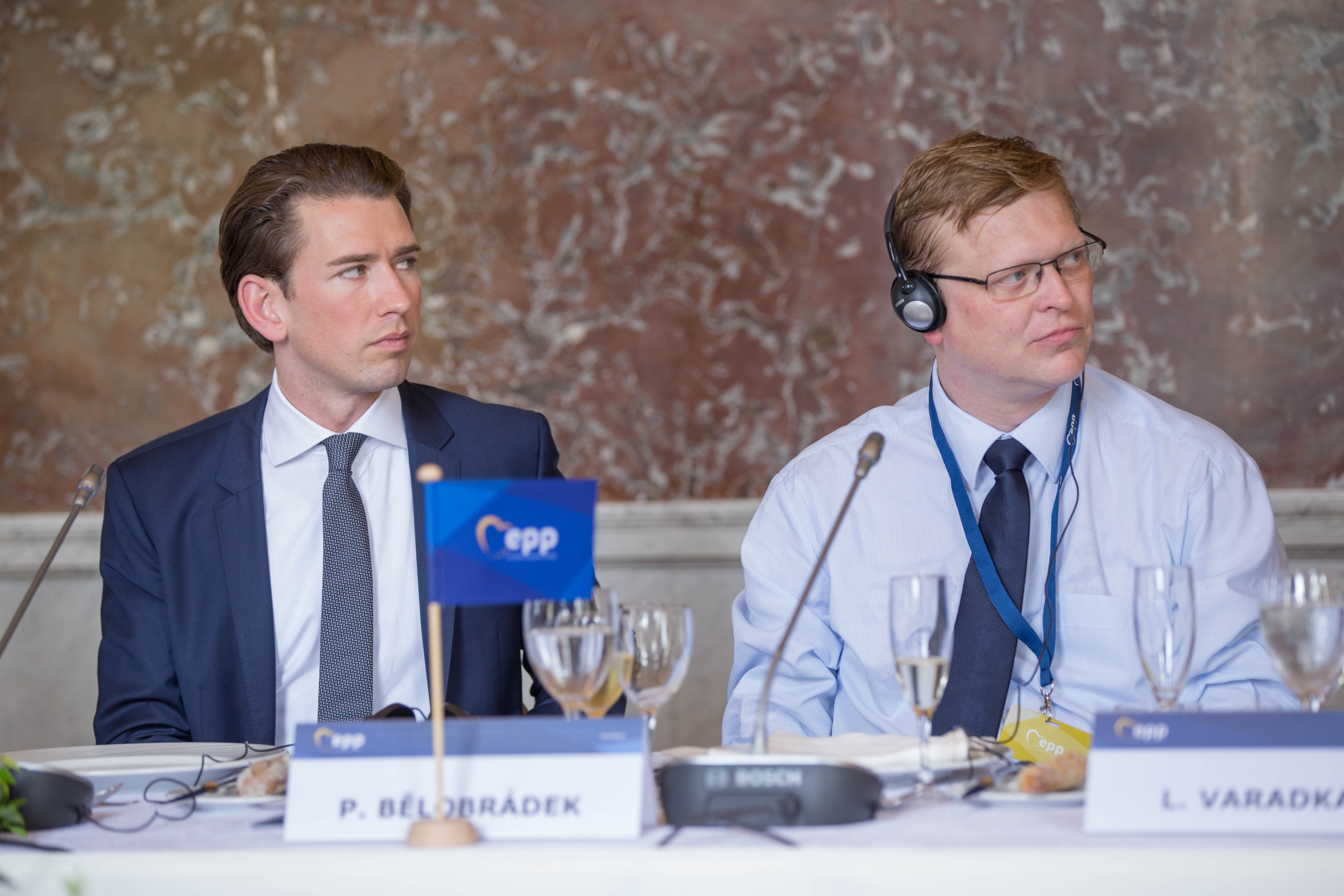 European People's Party Summit in Brussels, June 2017.